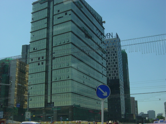 Development, to be continued ― Chaowai in July 2004.